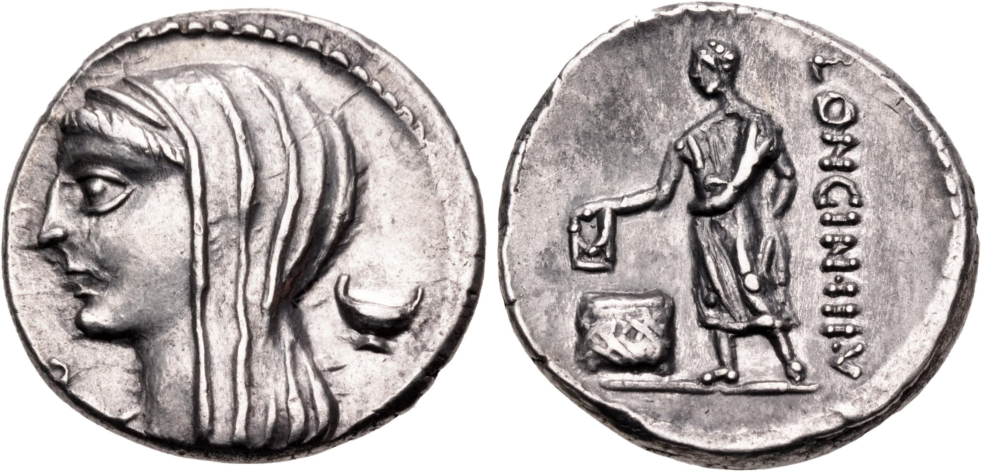 L. Cassius Longinus. 60 BC. AR Denarius (19mm, 3.91 g, 6h). Rome mint. Veiled and draped bust of Vesta left; C below chin, calix to right / Voter standing left, dropping tablet inscribed V (Uti rogas) into cista to left. Crawford 413/1; Sydenham 935; Cassia 10. EF, dark gray toning. From the Bruce R. Brace Collection.